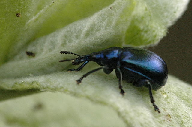 Picture taken in Commanster, Belgian High Ardennes . Species: Byctiscus betulae